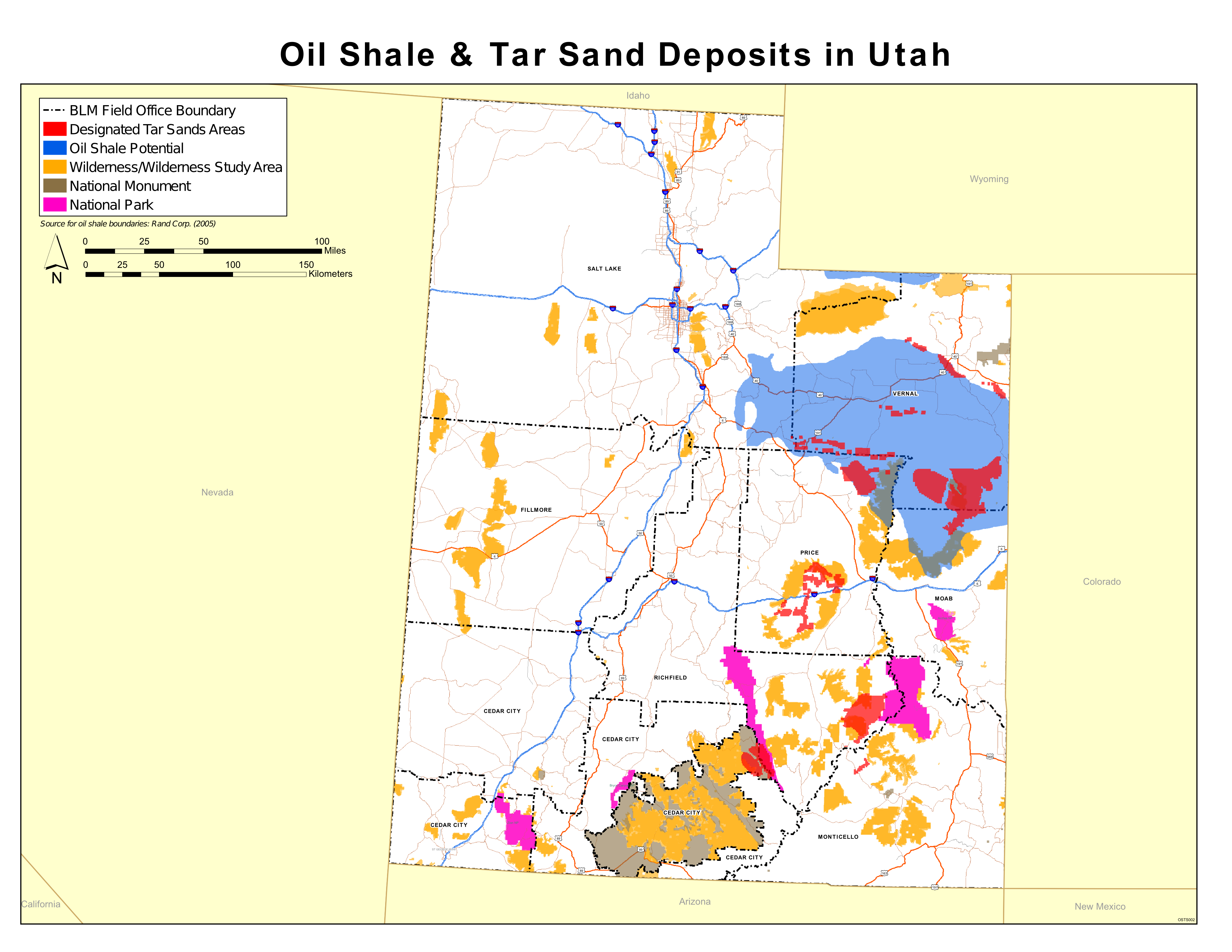 map of tar sand and oil shale deposits in Utah, USA.